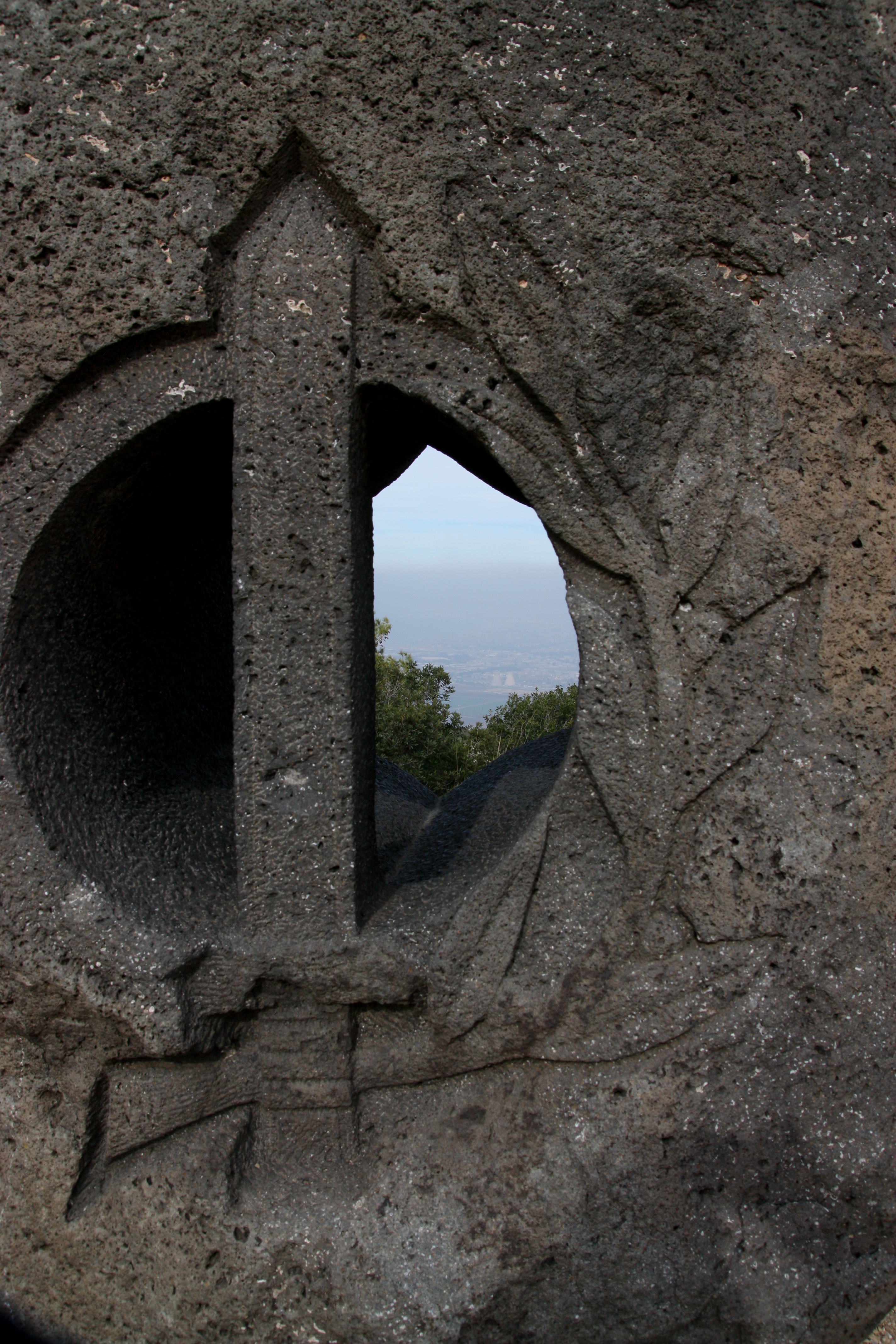 Mount Carmel